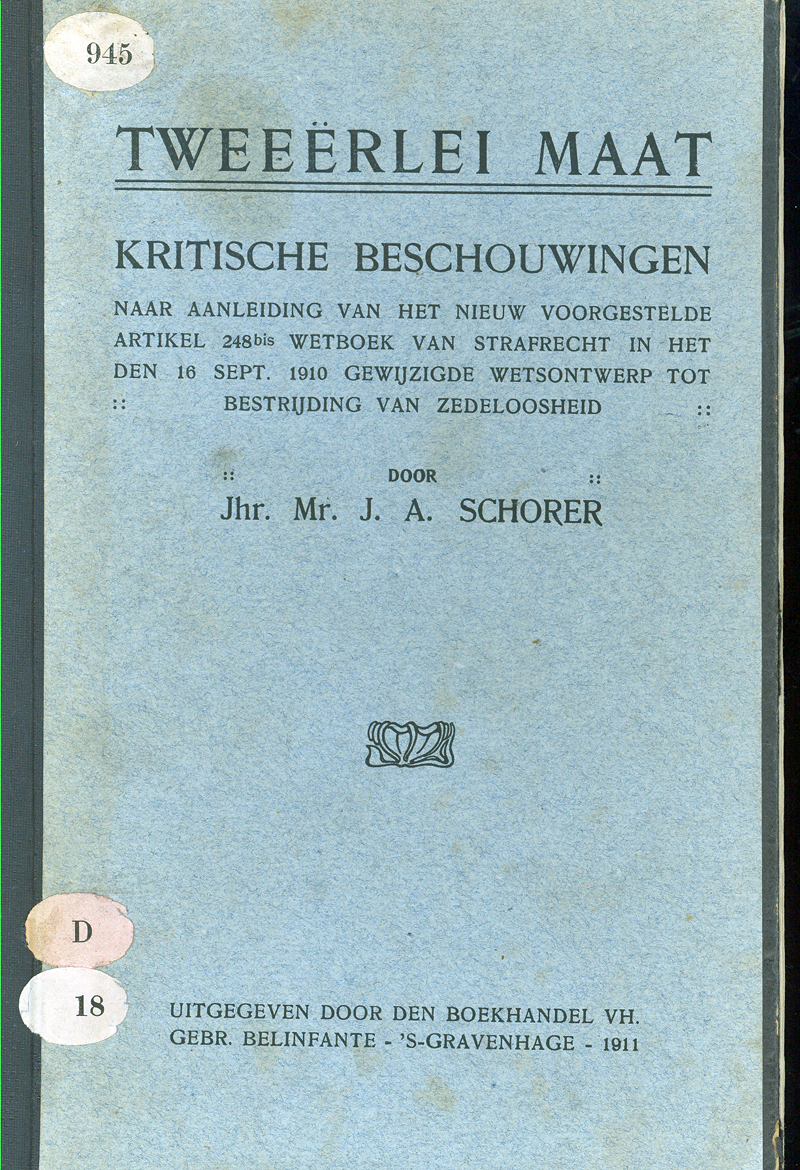 Cover of a booklet critising a new Dutch law (art. 248-bis WvSr) on homosexual acts between adults and minors under 21. The Hague 1911.